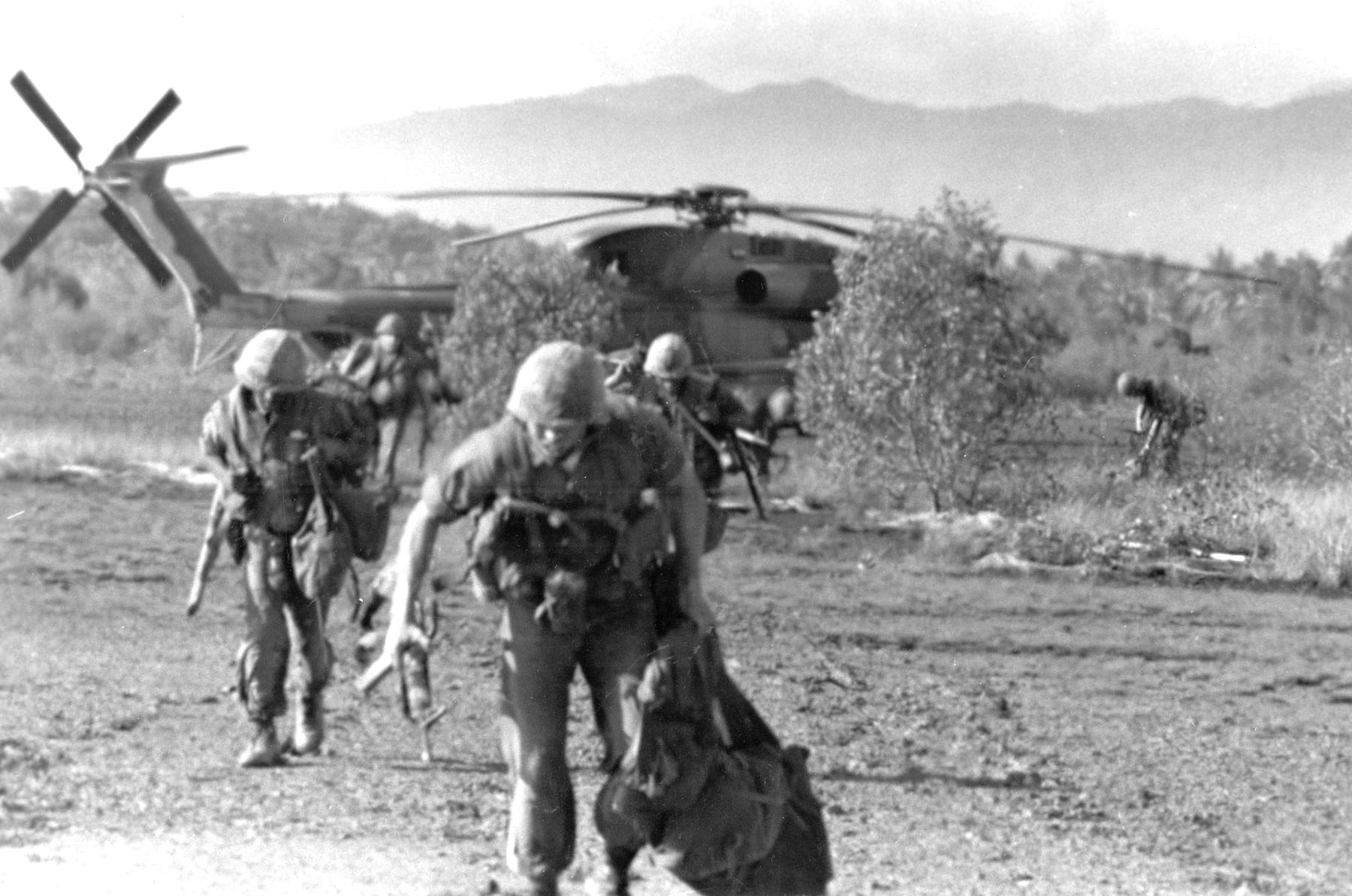 Unidentified U.S. Marines run from a Sikorsky HH-53C Jolly Green Giant helicopter of the 40th Aerospace Rescue and Recovery Squadron during the assualt on Koh Tang Island to rescue the U.S. Merchant ship Mayaguez and its crew, 15 May 1975.